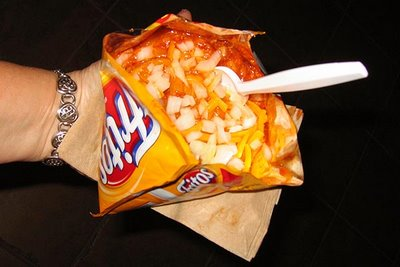 Frito pie done the original way; inside the bag with chili and toppers poured in.